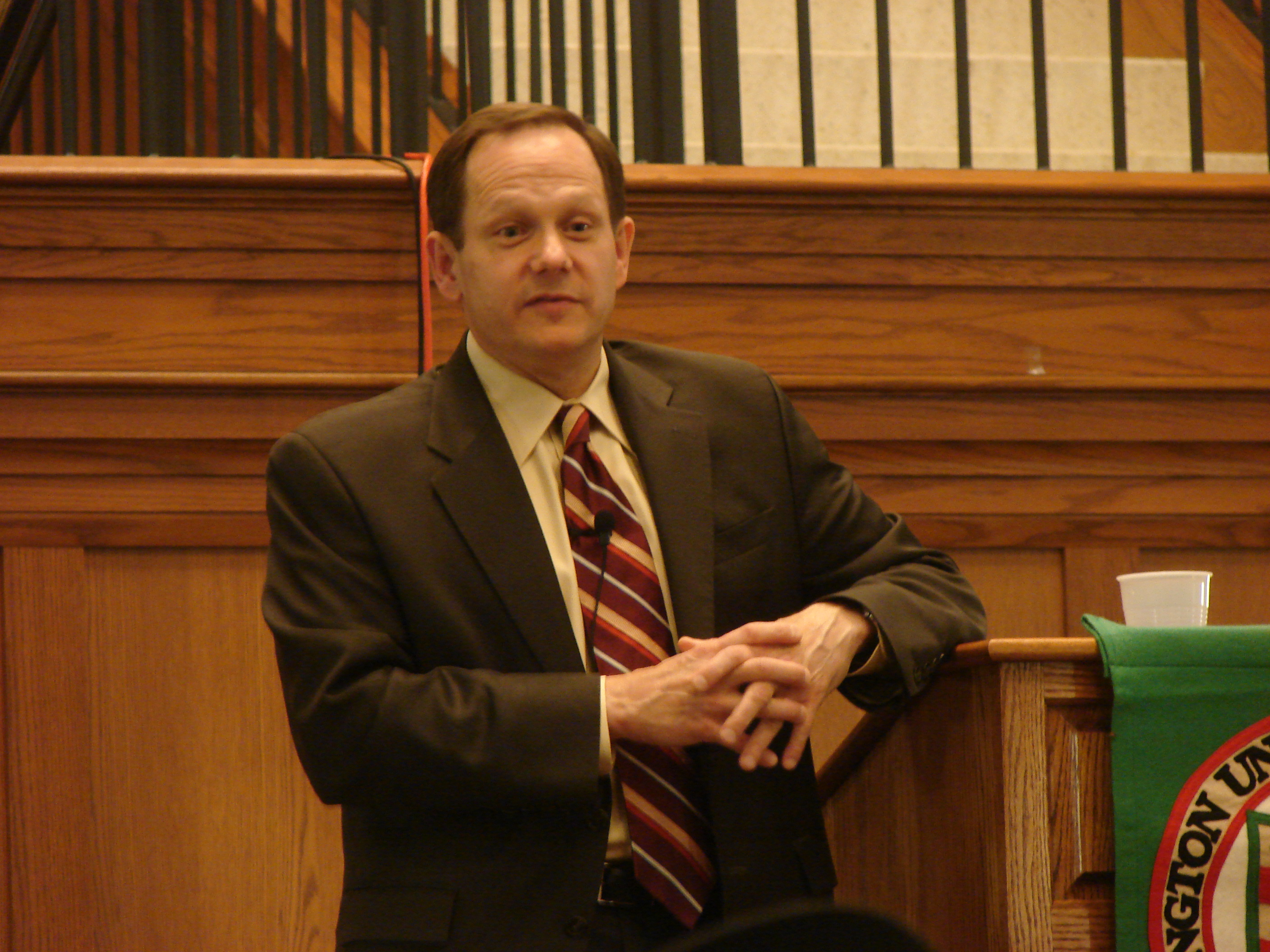 St. Louis Mayor Francis Slay speaking at the Danforth University Center on the campus of Washington University in St. Louis